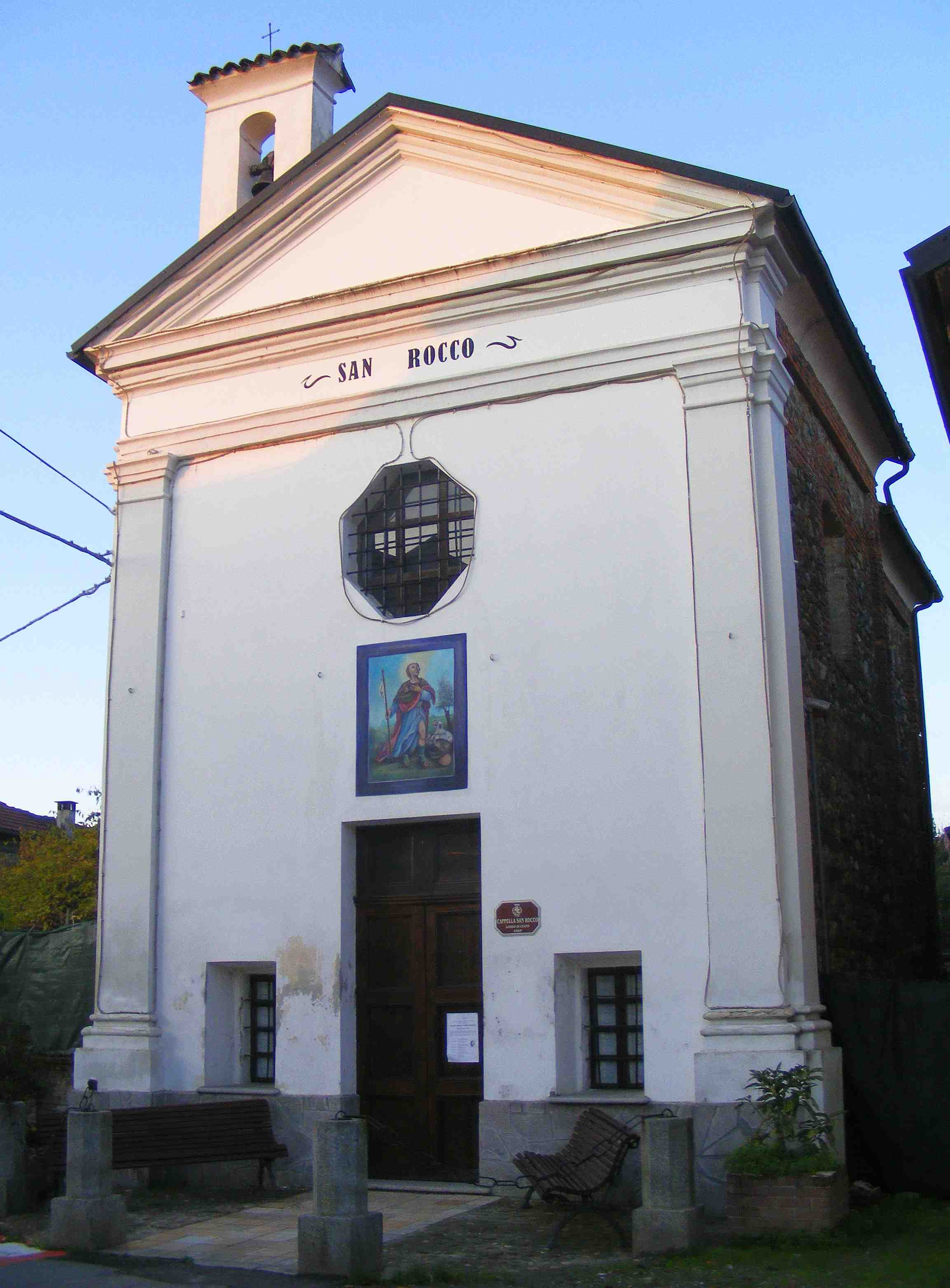 San Gillio (TO, Italy): Saint Rocco's chapel